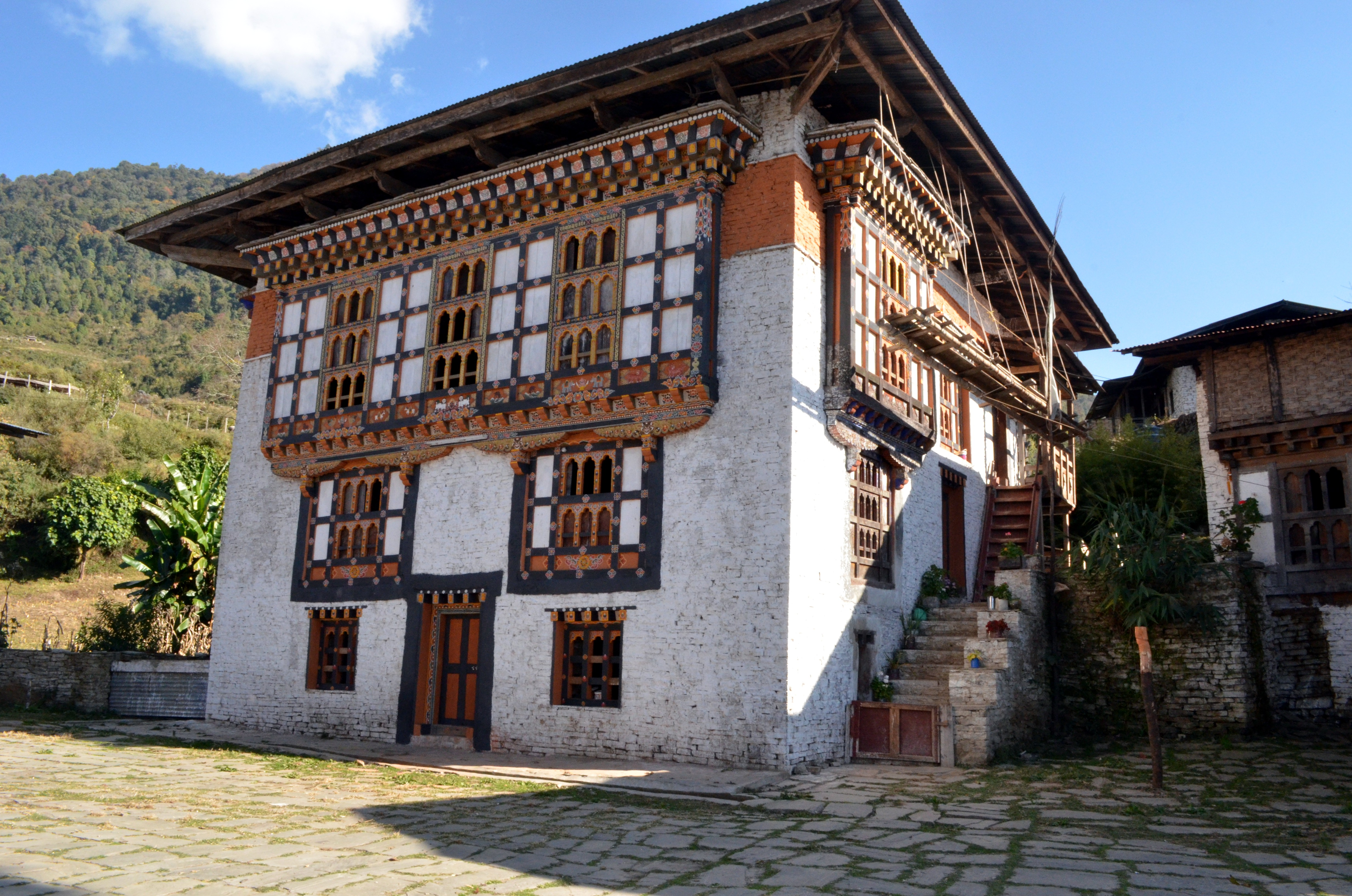 Naktsang at Tsakaling, Mongar District, Bhutan. This is the traditional home of the Tsakaling Chöje (Dharma Lord) whose ancestral lineage descends from Sangdag, the youngest son of Terton Pema Lingpa. It contains a large Lhakang on the top floor.